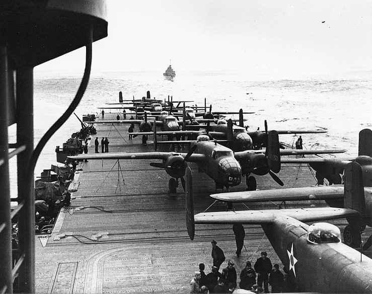 North American B-25 Mitchell medium bomber on the flight deck of USS Hornet (CV-8), while en route to Japan on April 1942 Removed caption read: Photo # NH 53426 B-25Bs on board USS Hornet, while en route to raid Japan, April 1942